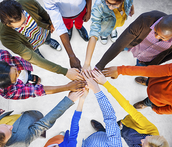 Team Corporate Teamwork Collaboration Assistance Concept